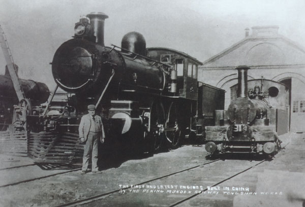 Early locomotives in Tangshan, China